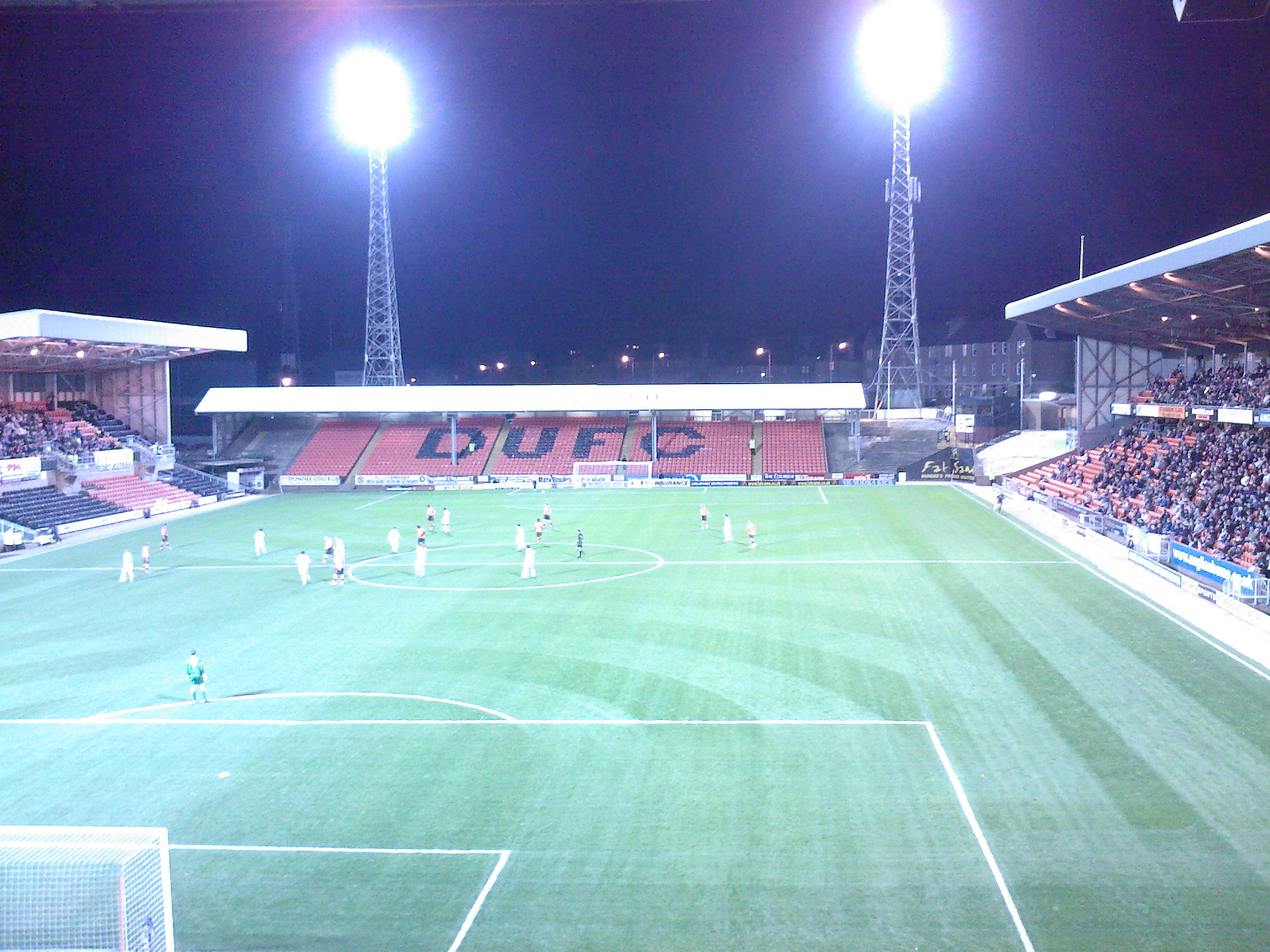 Tannadice Park, facing 'The Shed' from the East Stand